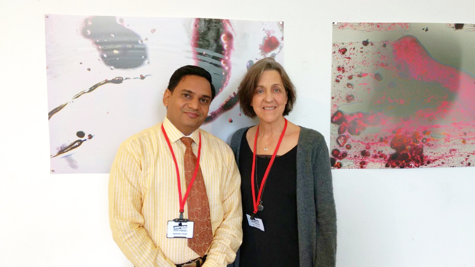 Rita Charon and Satendra Singh at the Association for Medical Humanities Conference at London, 2016